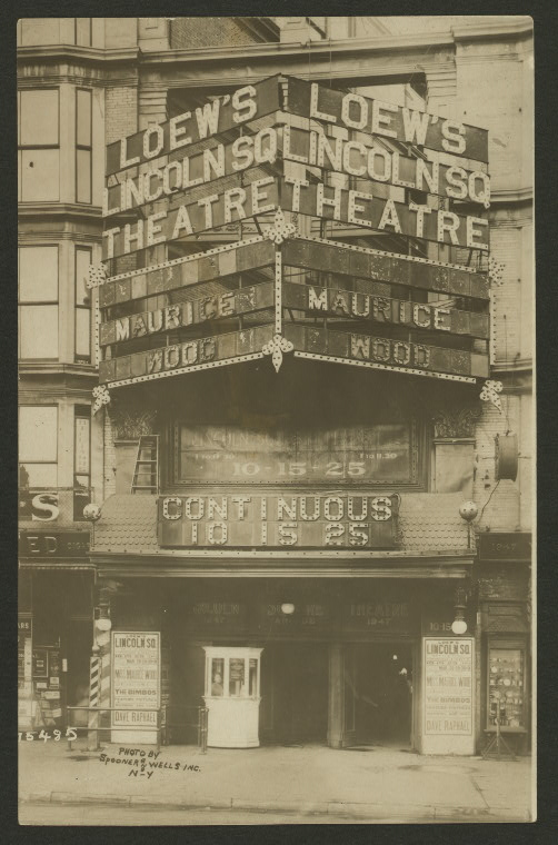 The Loew's Lincoln Square Theater was a vaudeville theater in the Lincoln Arcade Building at Broadway and 68th Street in Manhattan. Constructed in 1905, it was 7 years old when this was taken.